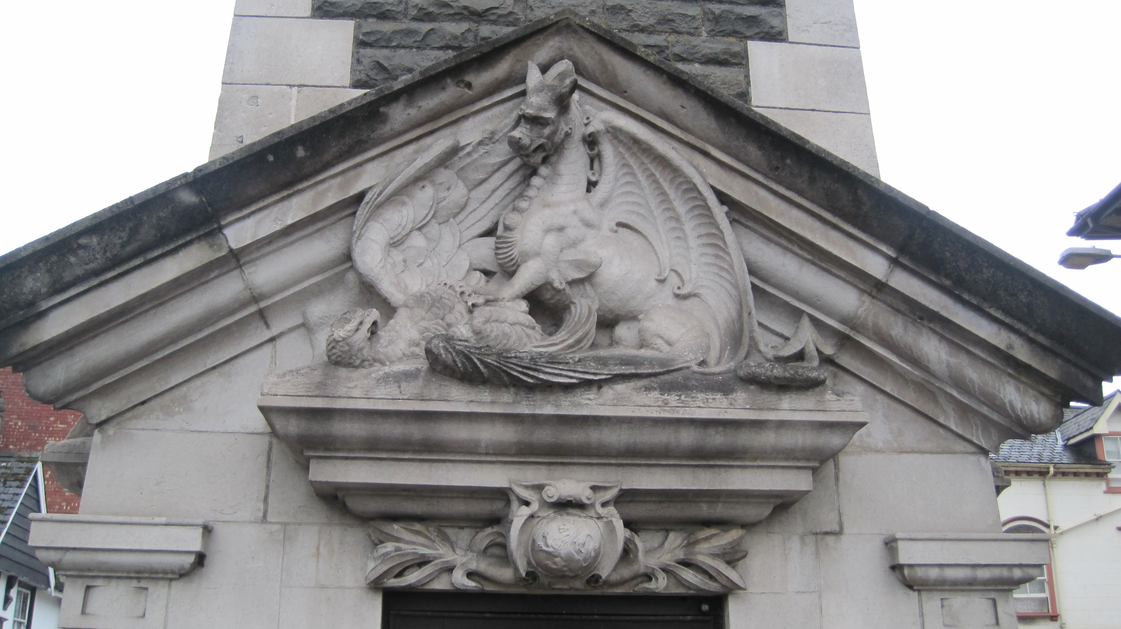 Rhaeadr, Powys, Wales.